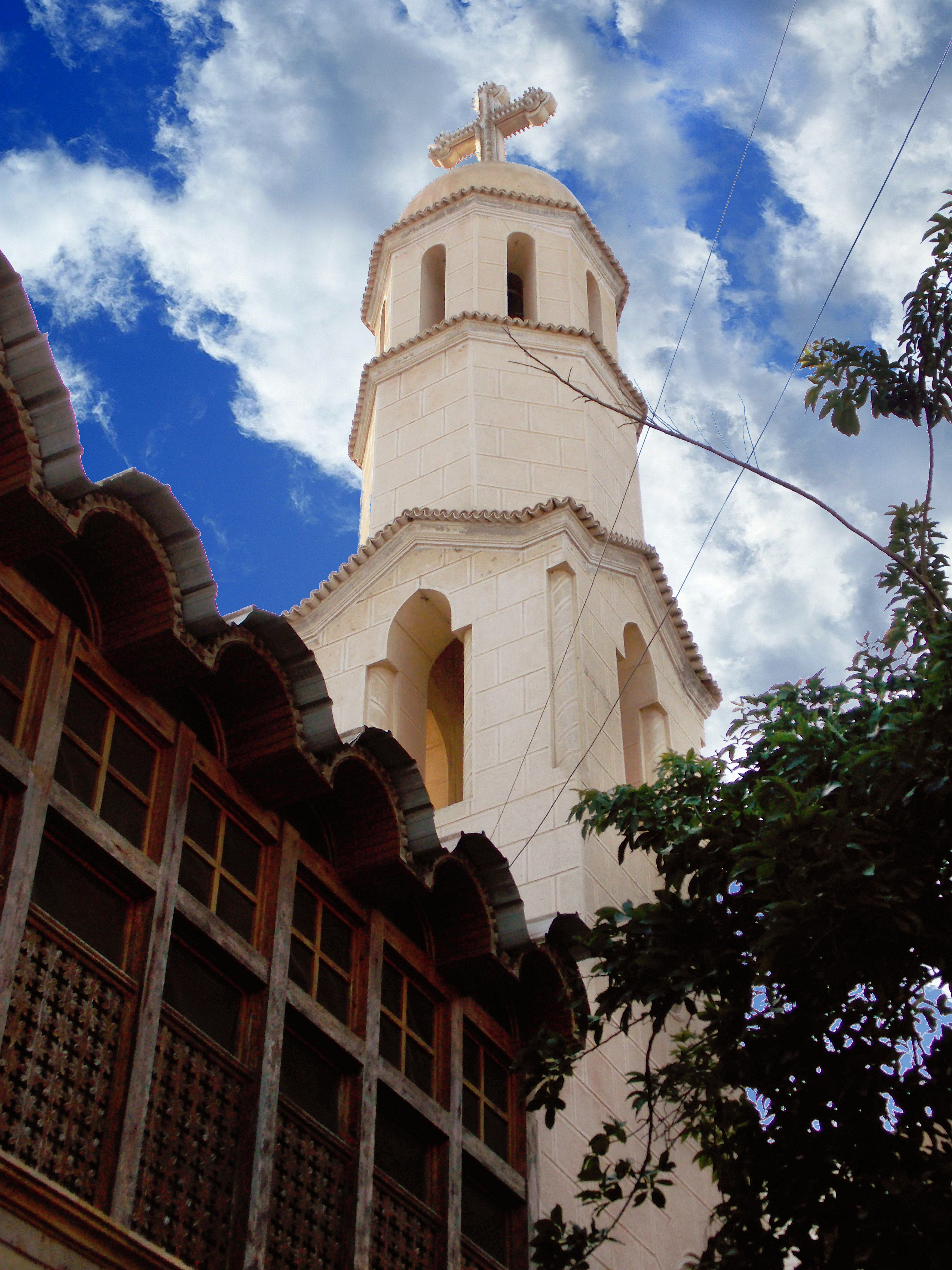 Bell Tower at Monastery Of Demiana